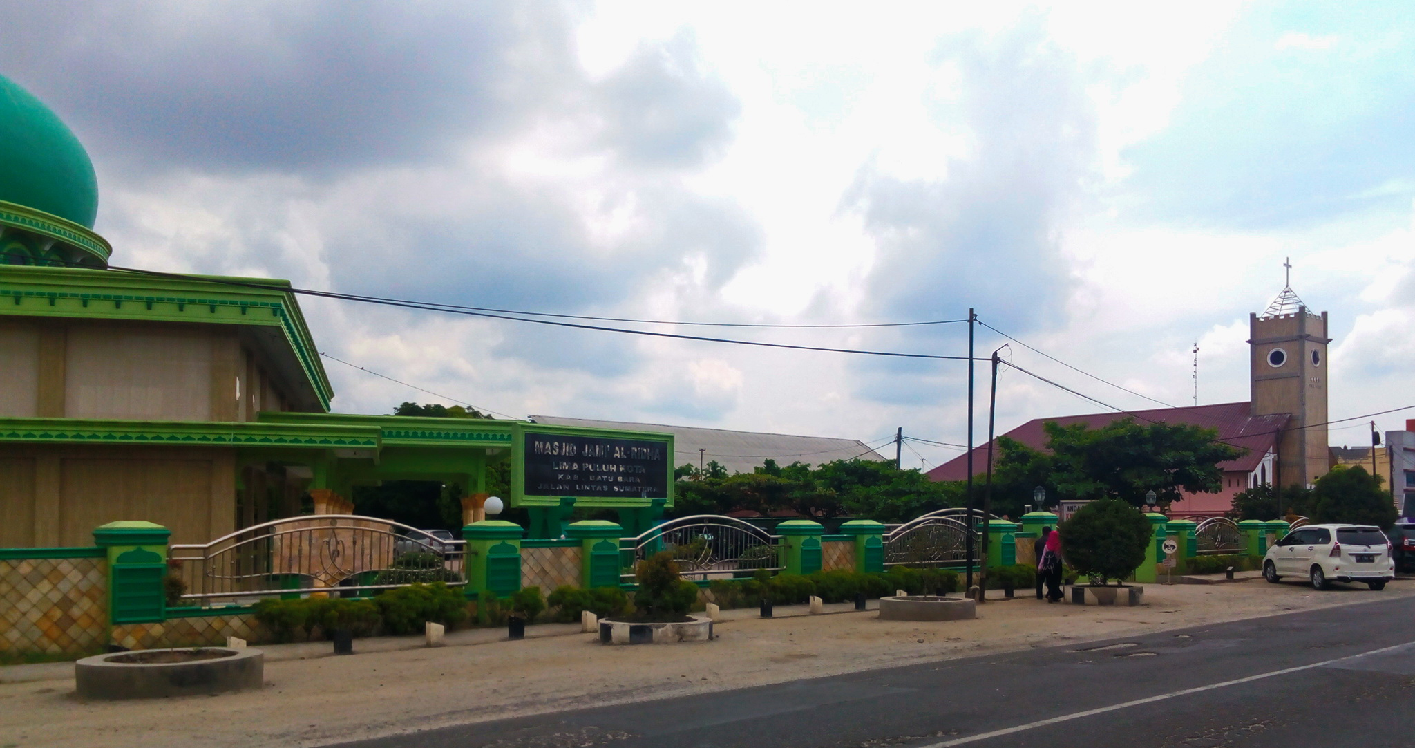 HKBP Lima Puluh, Res. Lima Puluh, Church in Lima Puluh, Batu Bara